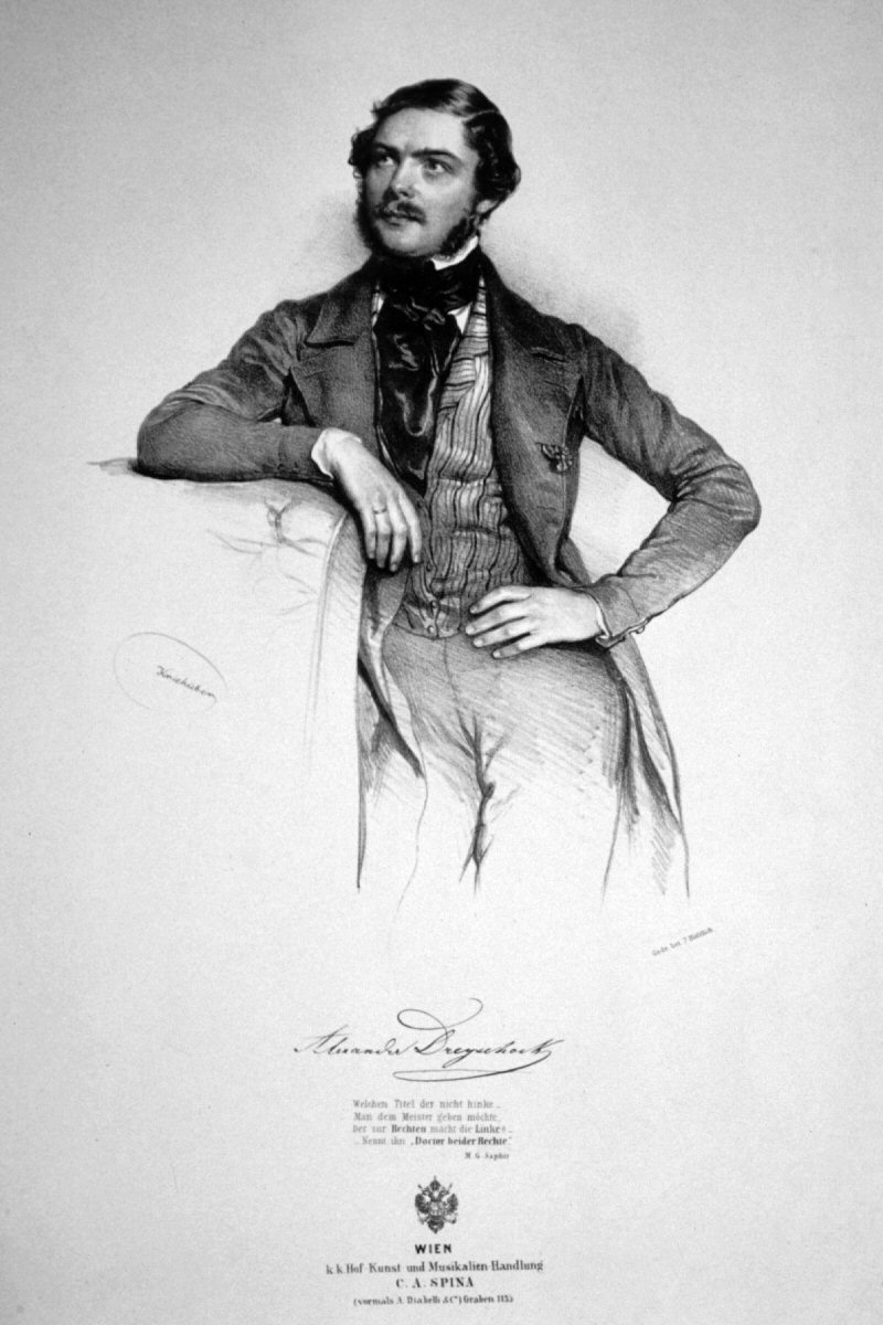 Portrait of Austrian musician Alexander Dreyschock